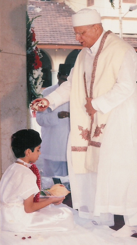 Parsi Navjote (initiation into the Zoroastrian faith)